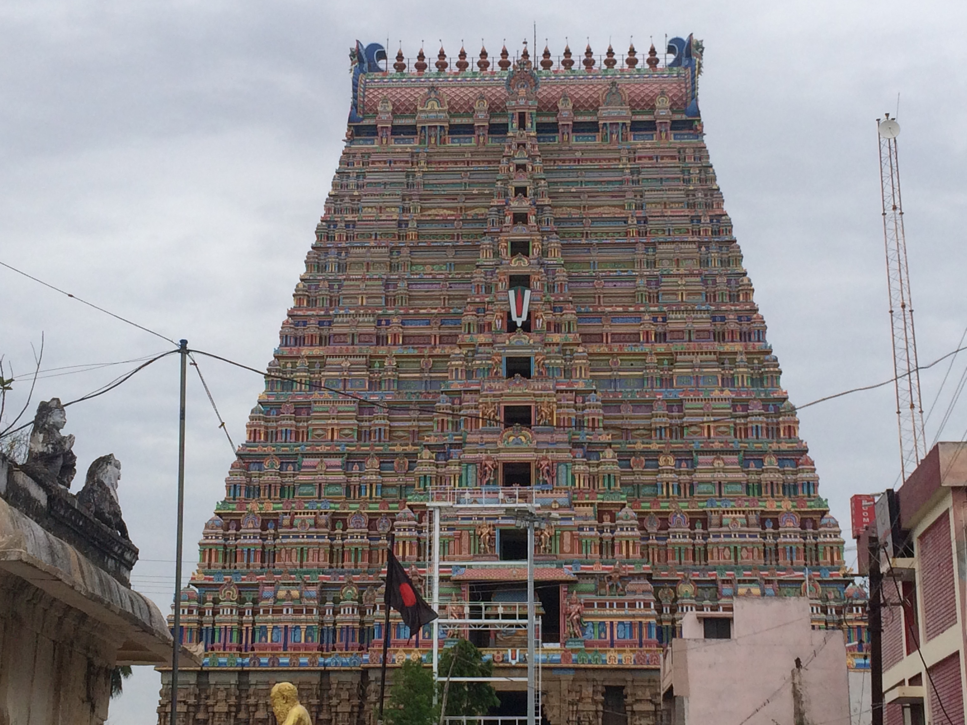 Srirangam temple